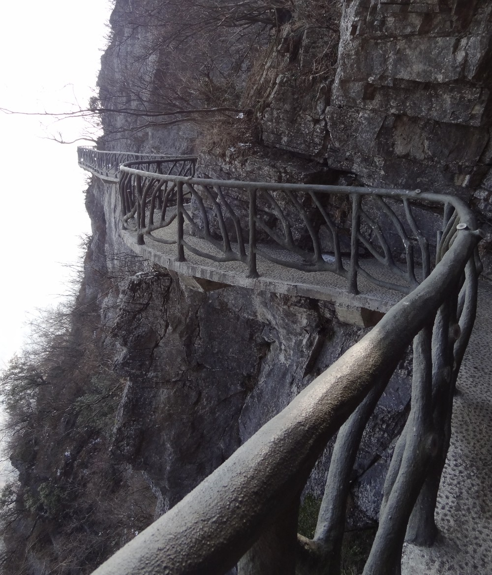 Just part of the cliff footpath jutting out of Tianmen Mountian's clifftop. Tourists can take the cable car up there!